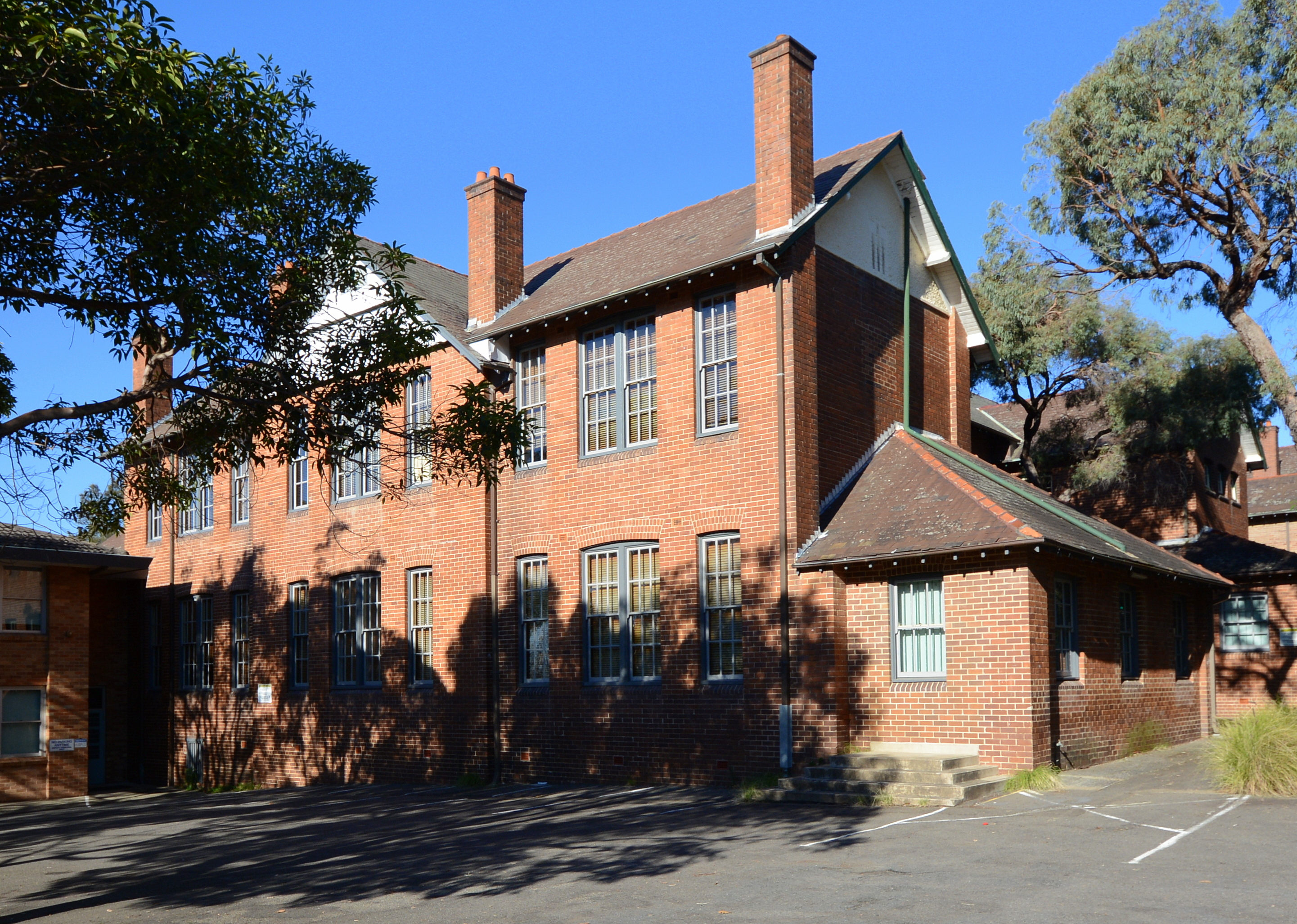 North Sydney Girls High, Pacific Highway, Crows Nest, Sydney